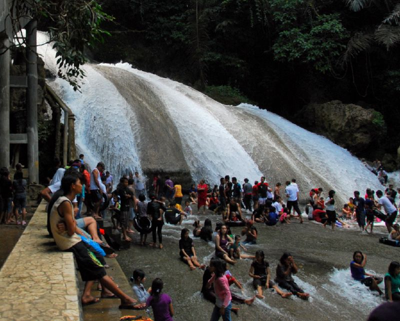 Waterfall at Bantimurung Bulusaraung National Park